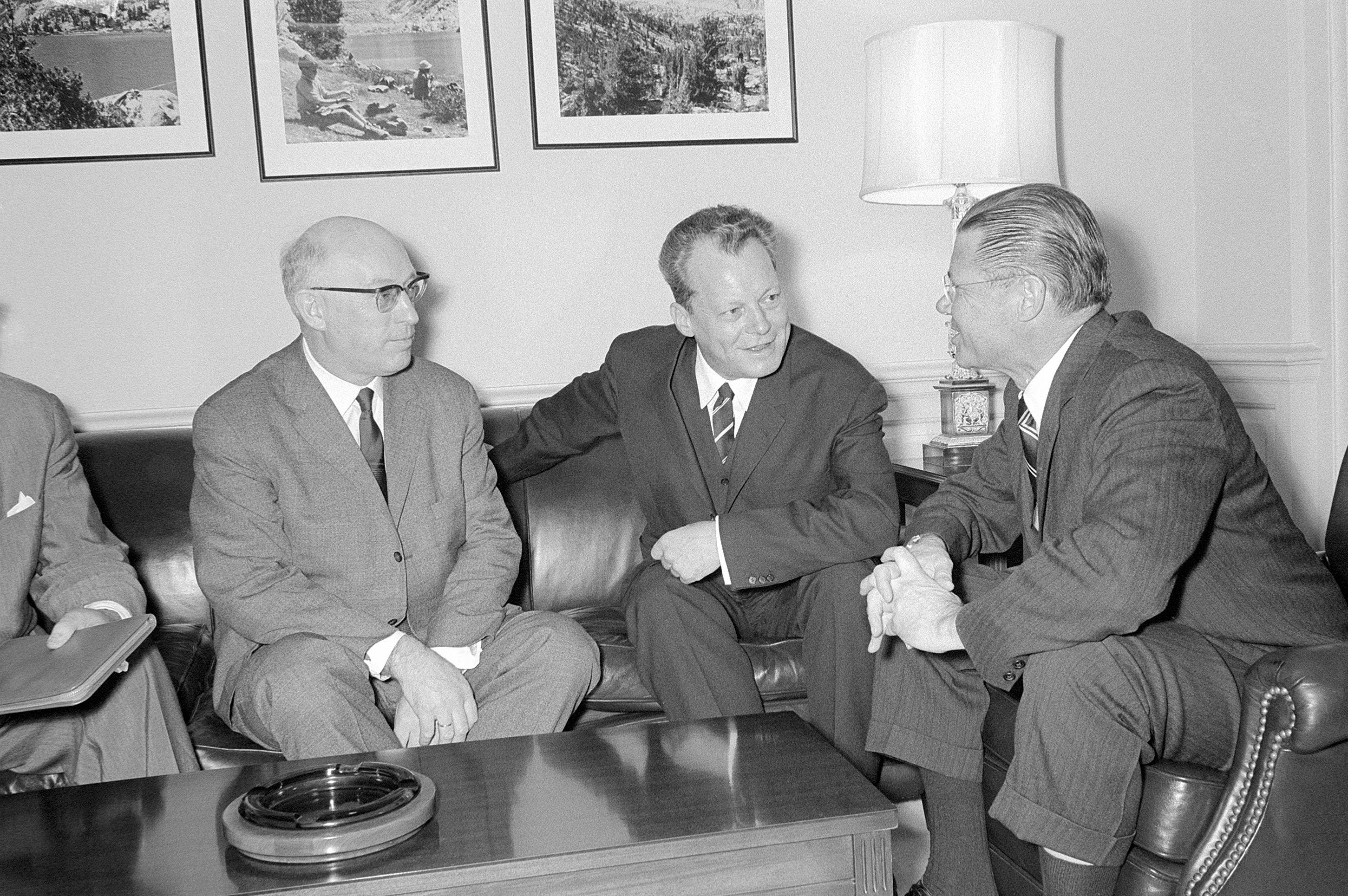 The U.S. Secretary of Defense Robert S. McNamara (right) meets with Fritz Erler (left), a member of the West German Social Democratic Party (SPD) and Deputy Chairman of the Fraktion Executive Committee, the Bundestag, Federal Republic of Germany; and Willy Brandt, Mayor of West Berlin, at the Pentagon.